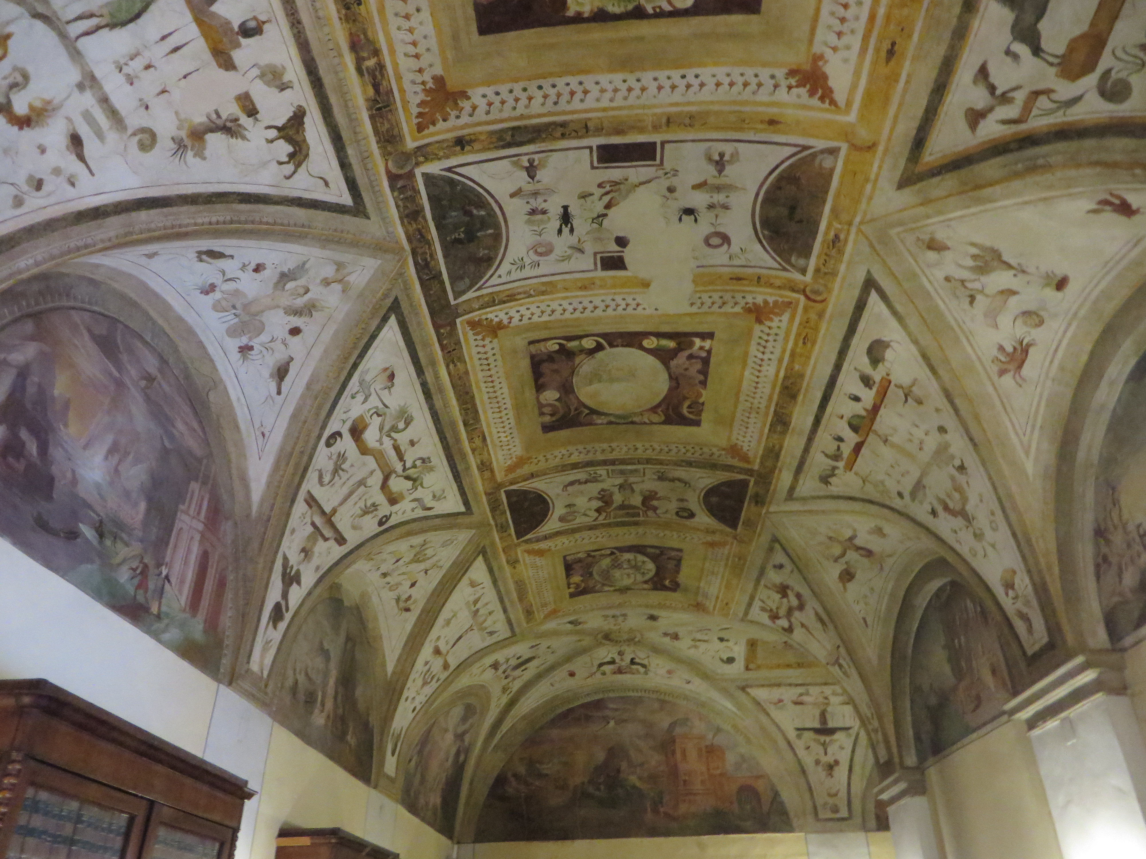 Rossi Castle San Secondo 5